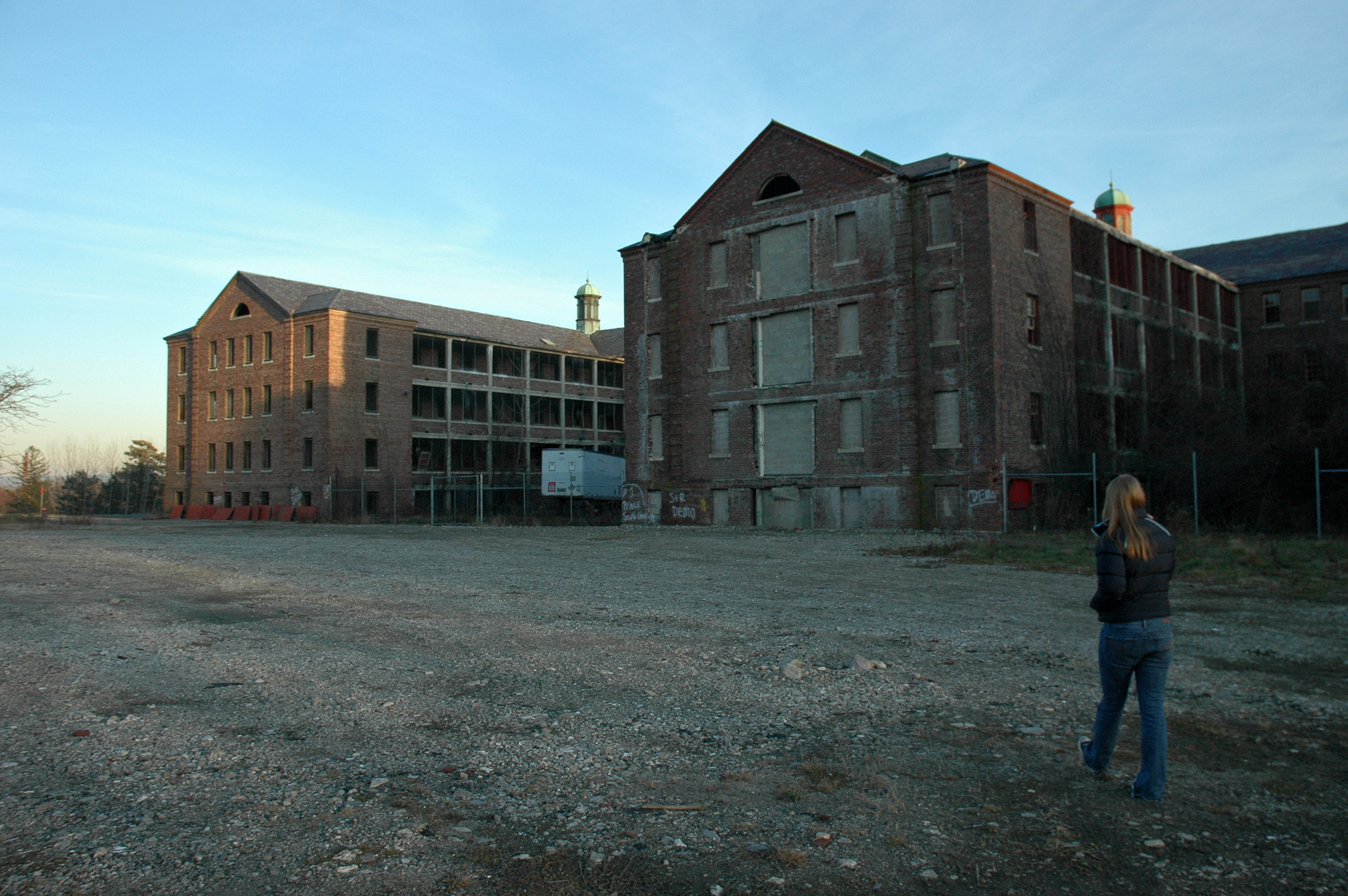 at the abandoned northampton state hospital, northampton, ma.